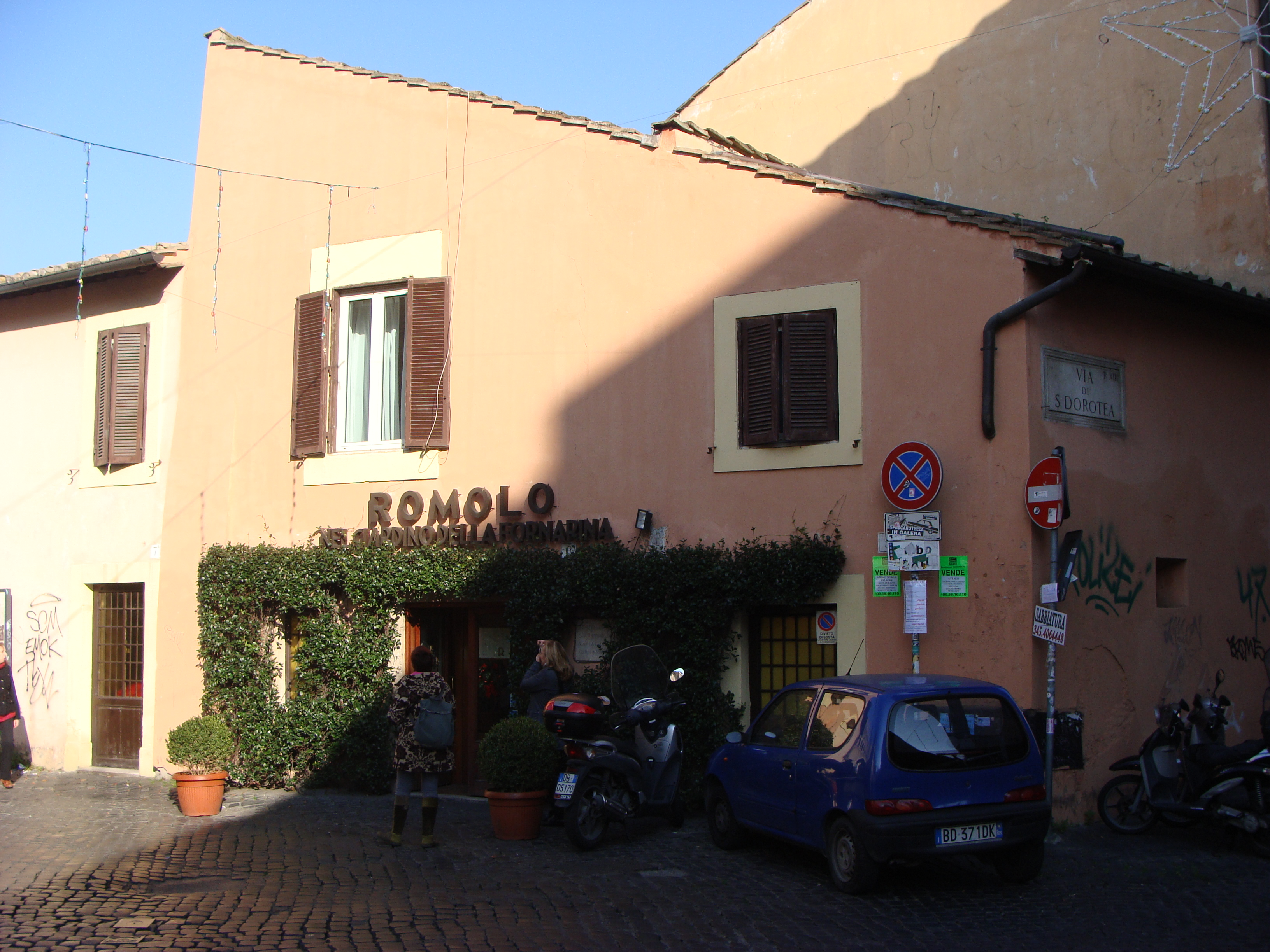 Fornarina's house in Rome